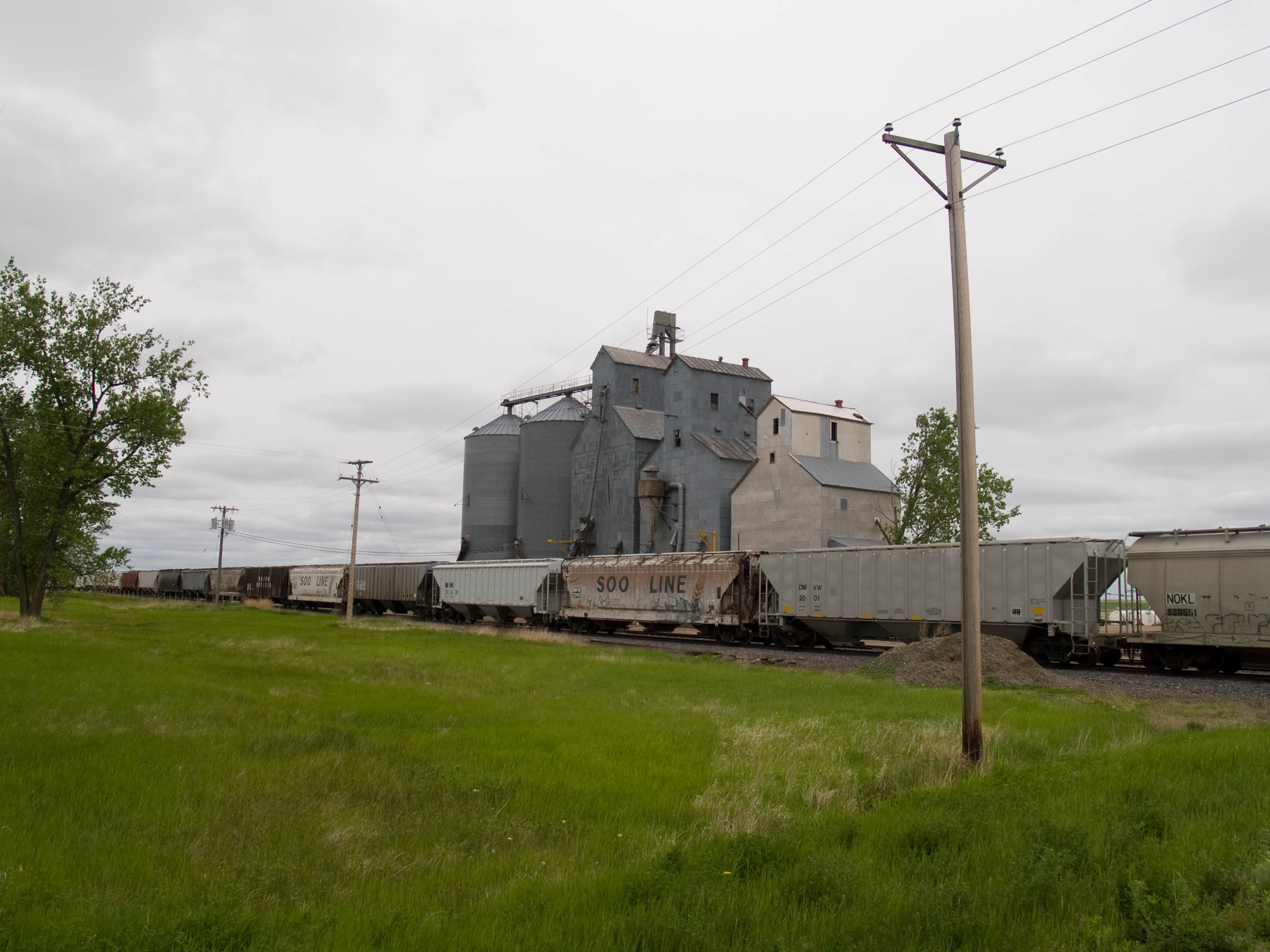 From